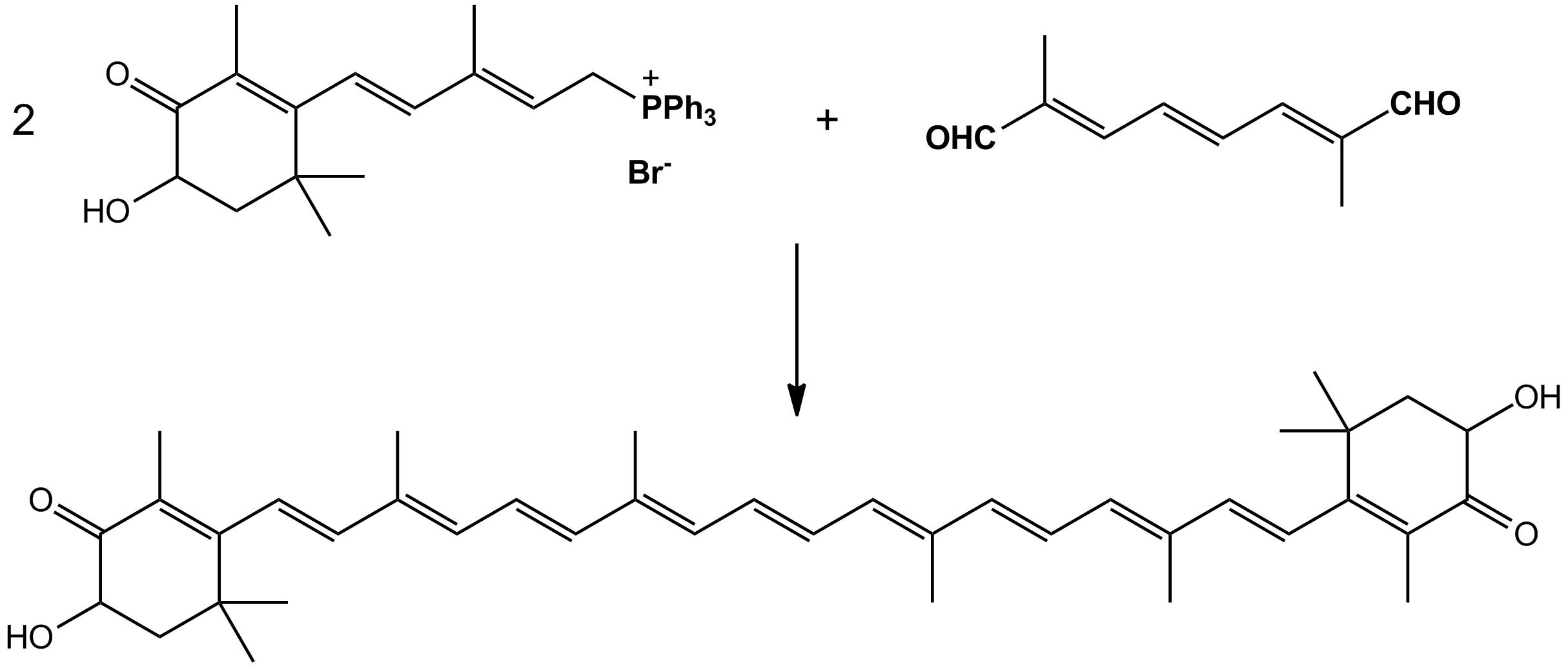 Synthesis of astaxanthin by Wittig reaction (Erich Widmer et al., "Technische Verfahren zur Synthese von Carotinoiden und verwandten Verbindungen aus Oxo-isophoron. I. Modifizierung der Kienzle-Mayer-Synthese von (3S 3'S)-Astaxanthin. Helv.Chim.Acta 64 (7):2405-2418, 1981.)